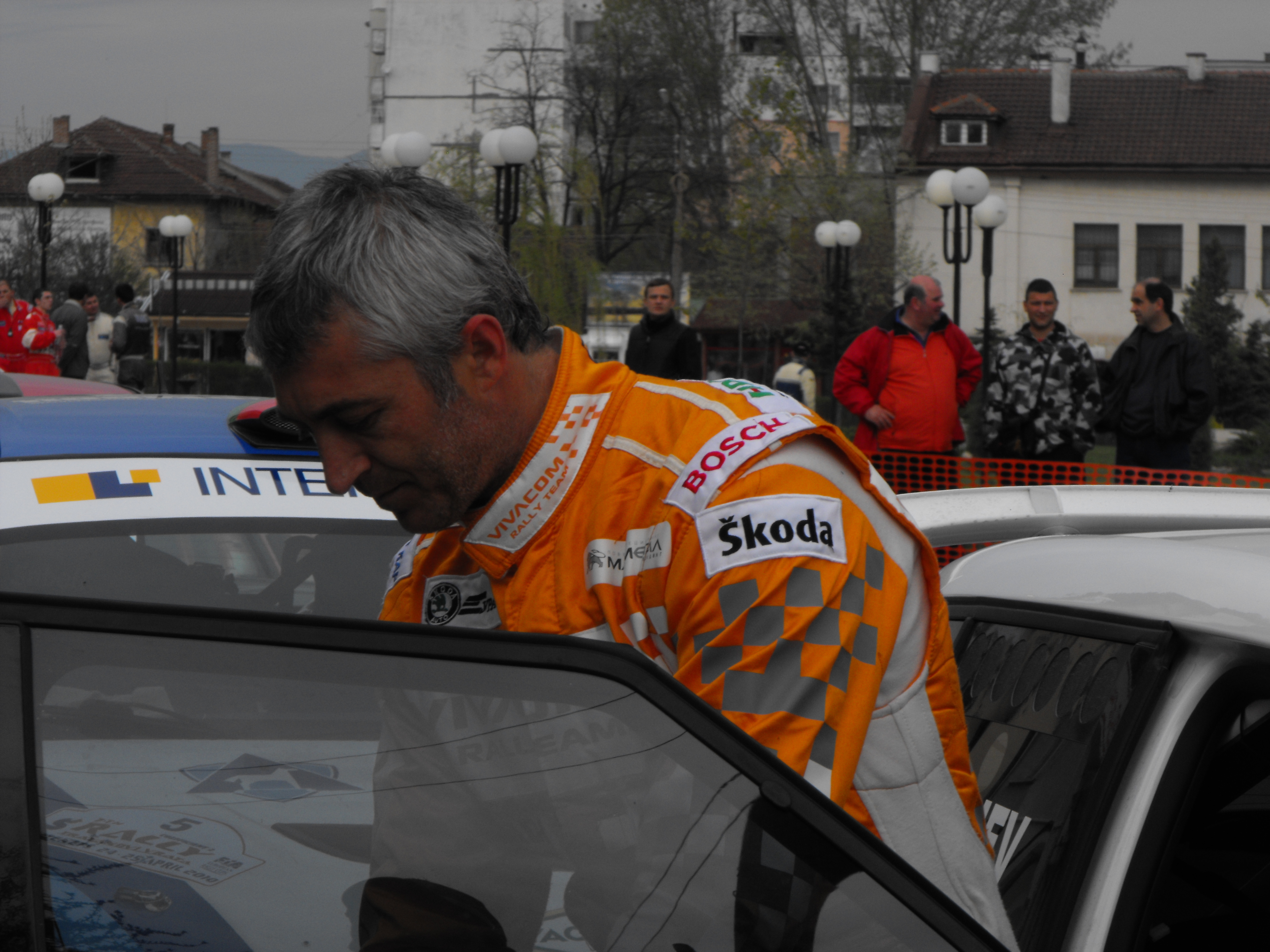 Yanaki Yanakiev - bulgarian rally champion, co-driver.